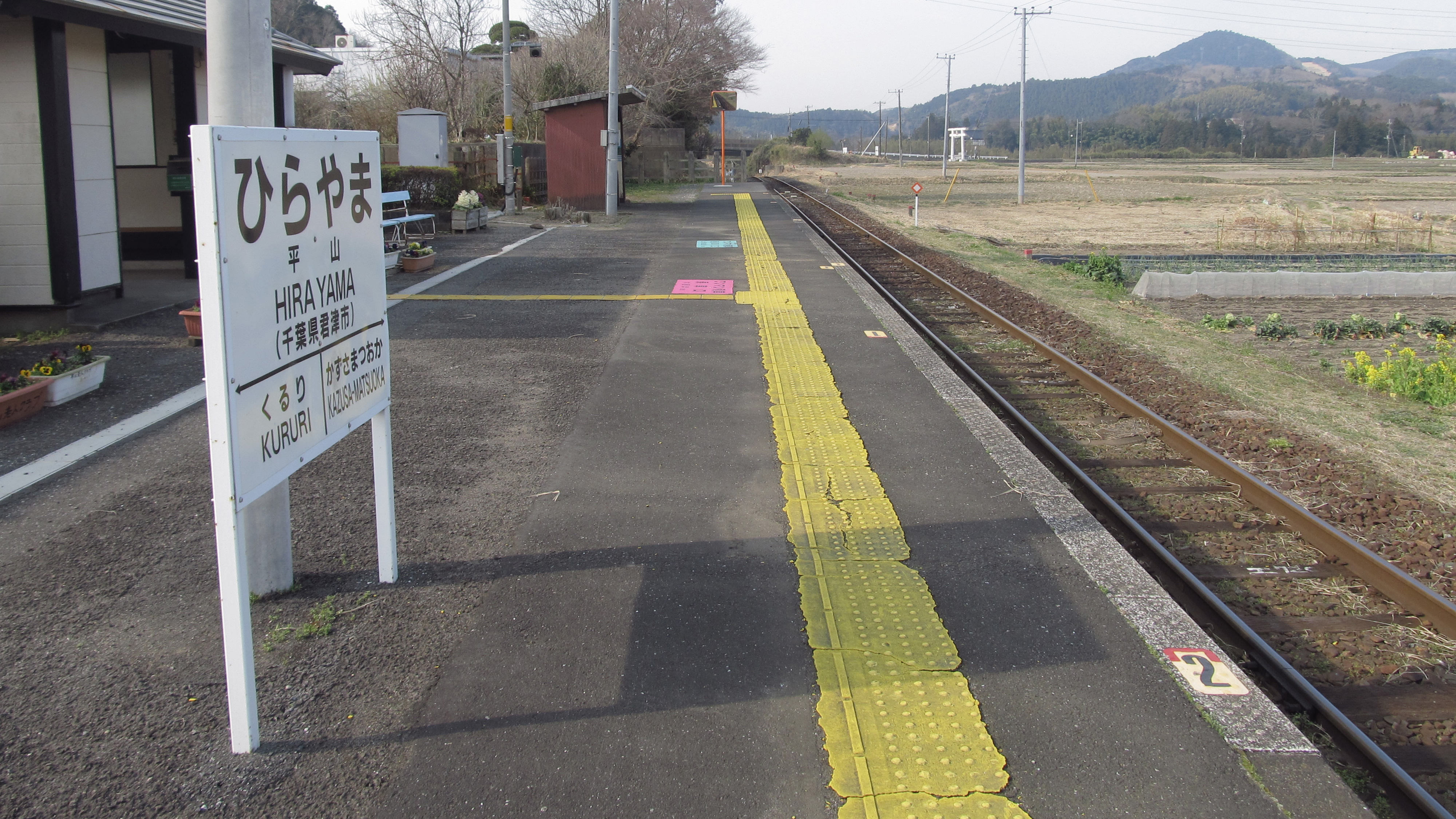 The platform at Hirayama Station on the Kururi Line in Kimitsu city, Chiba prefecture, Japan